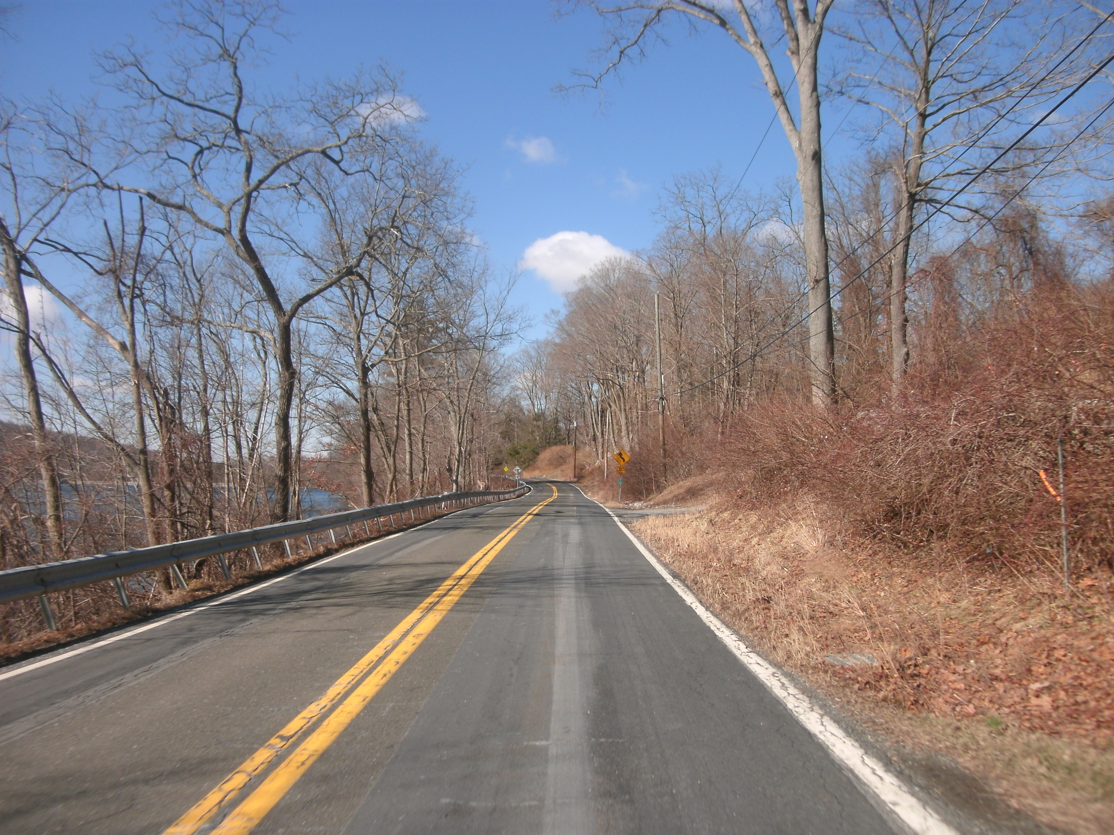 NY 116 westbound passing north of the Titicus Reservoir